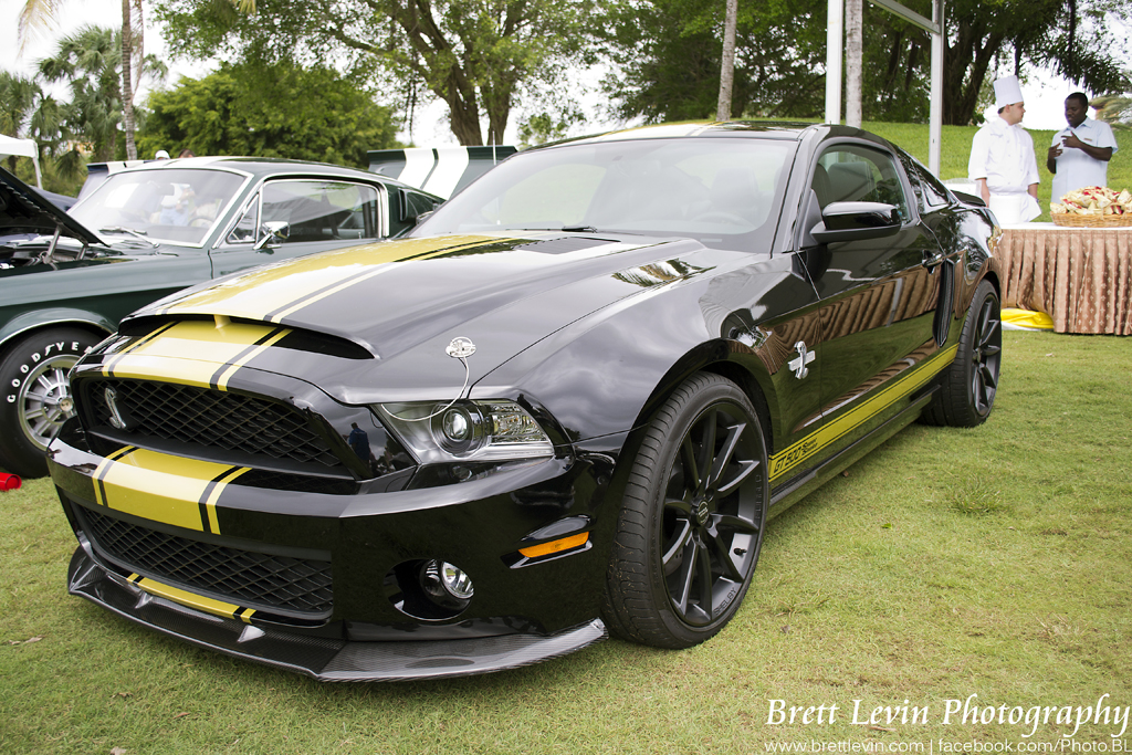 Ford Mustang Shelby GT500 Super Snake at Boca Raton, Florida, USA.